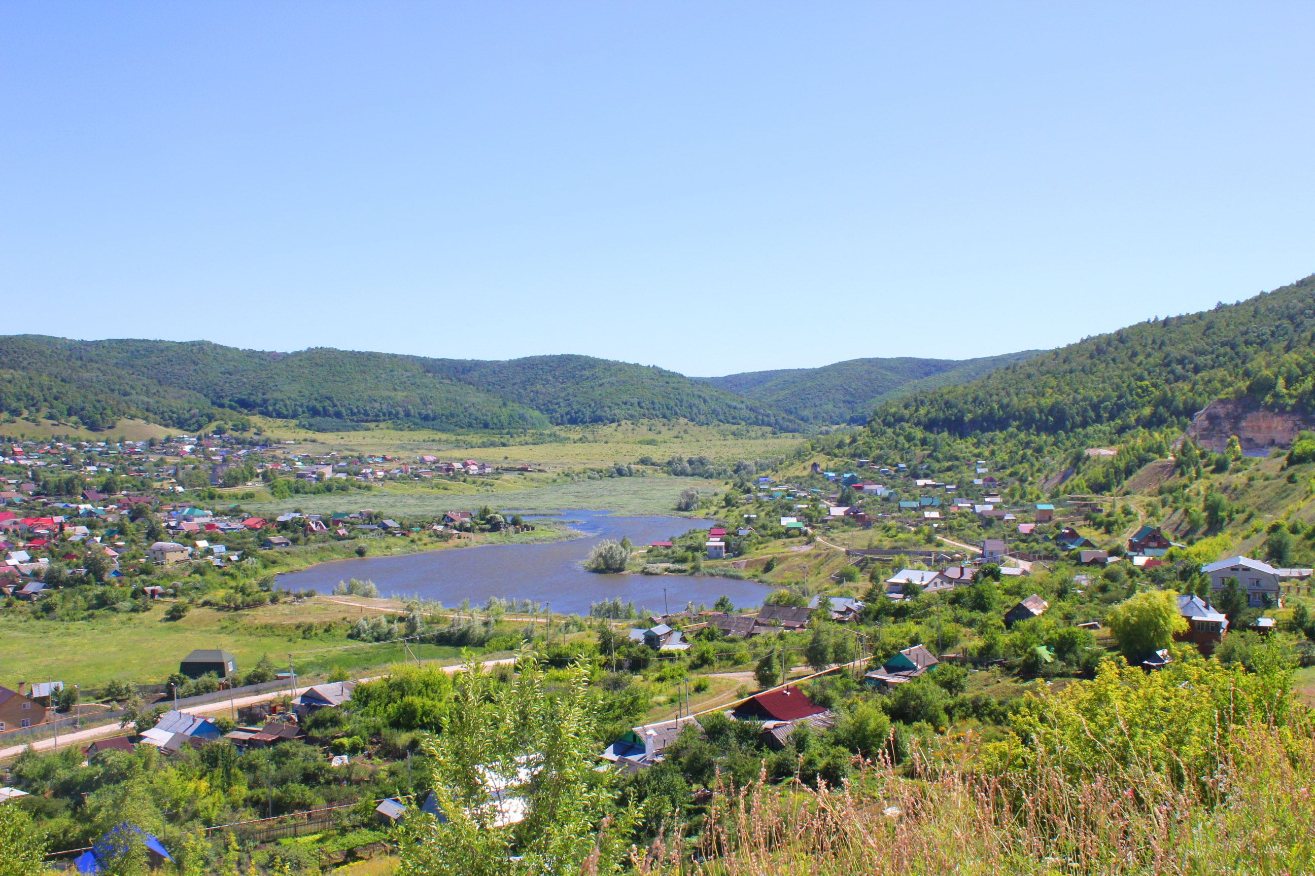 shiryaevo